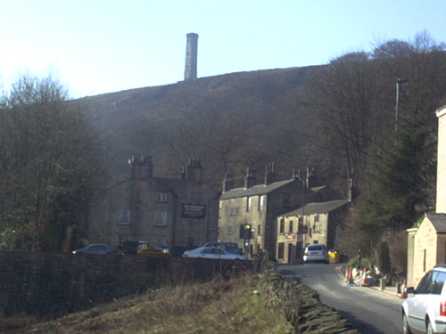 The Peel Monument above Ramsbottom, England seen from Chapel Lane, Holcombe at grid reference SD 783 167 looking south west. Vertically below the tower can be seen the Shoulder of Mutton public house. Photograph taken by harrypsauce in 2004